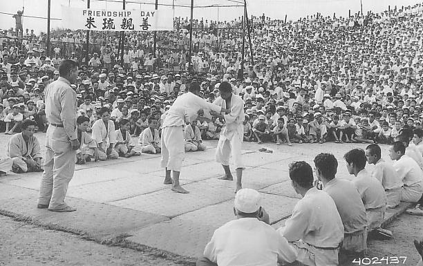 American-Ryukyuan Friendship Judo Tournament